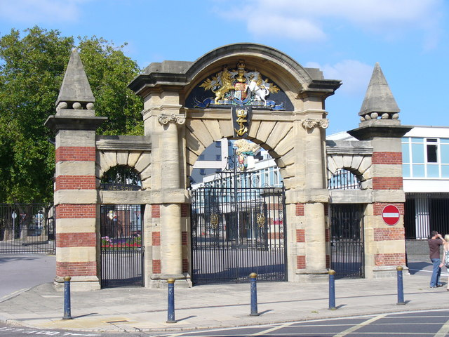 HMS Nelson Gateway Historic banded brick and stone gateway remaining in central Portsmouth. Note the base name and armorial bearings in the background.